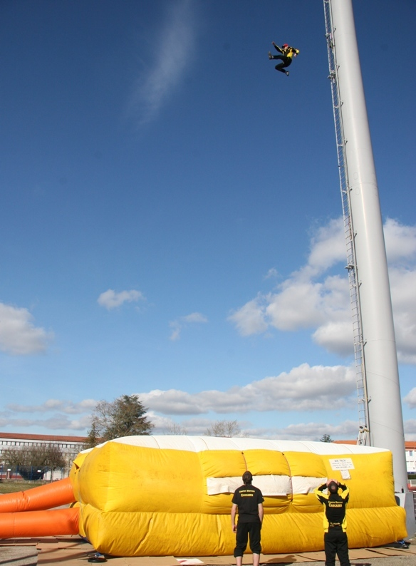 Jumping onto a rescue air cushion from a height of 20 meters